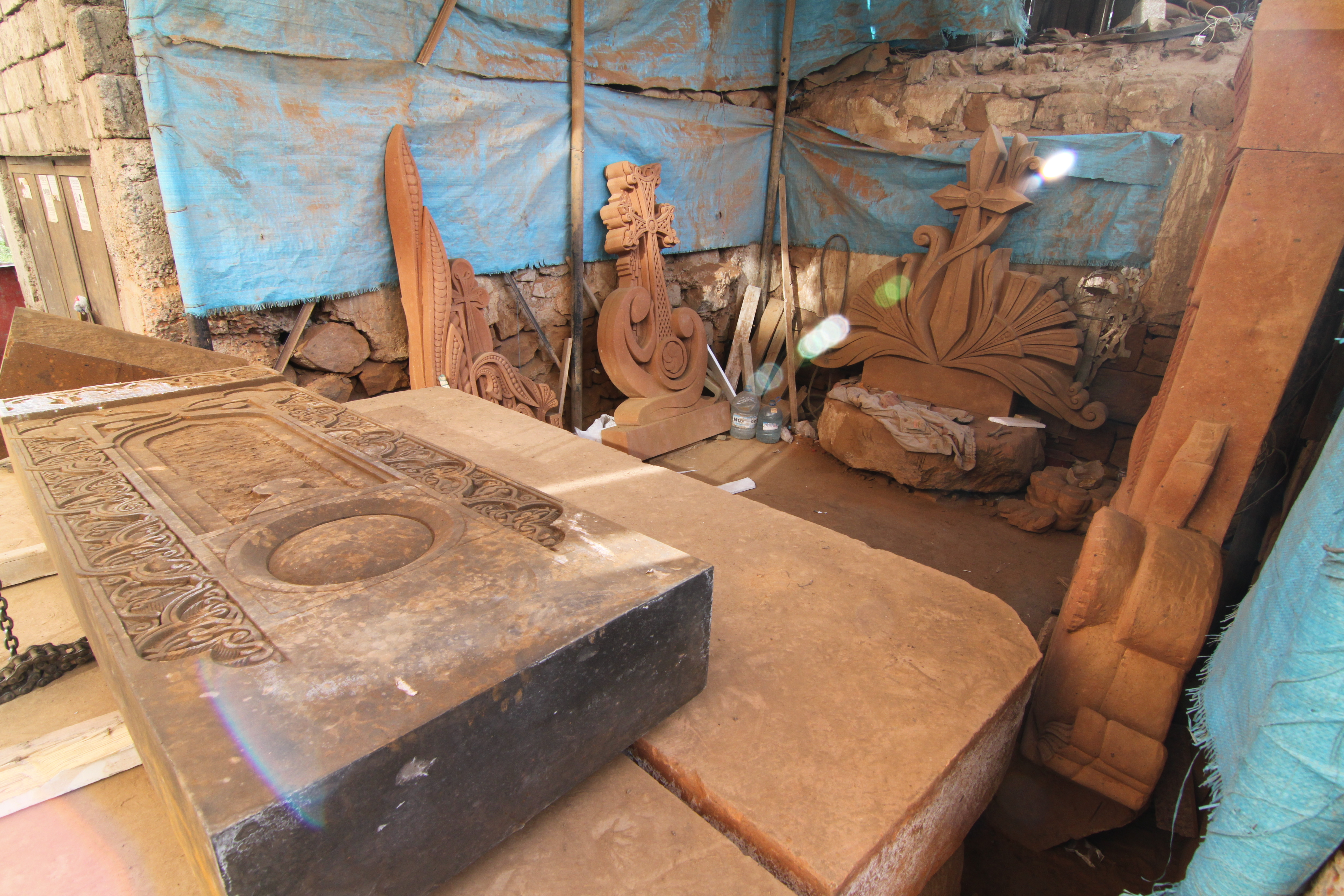 The workshop of a Khachkar master artist in downtown Yerevan.